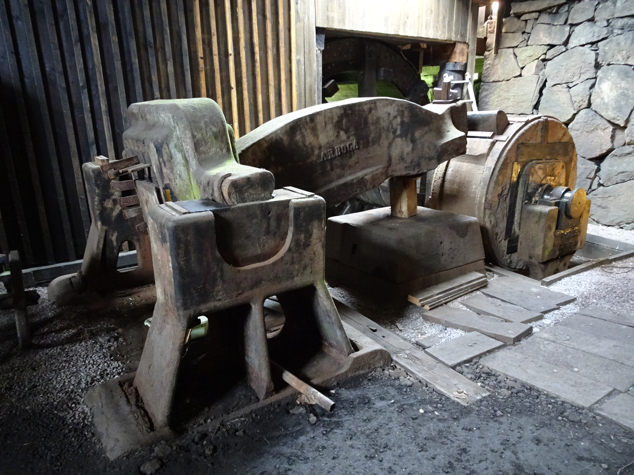 Water-powered triphammer in Trångfors finery forge, Hallstahammar, Sweden.